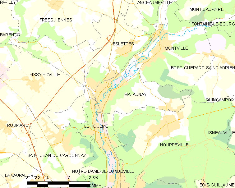 Map of French municipality Malaunay